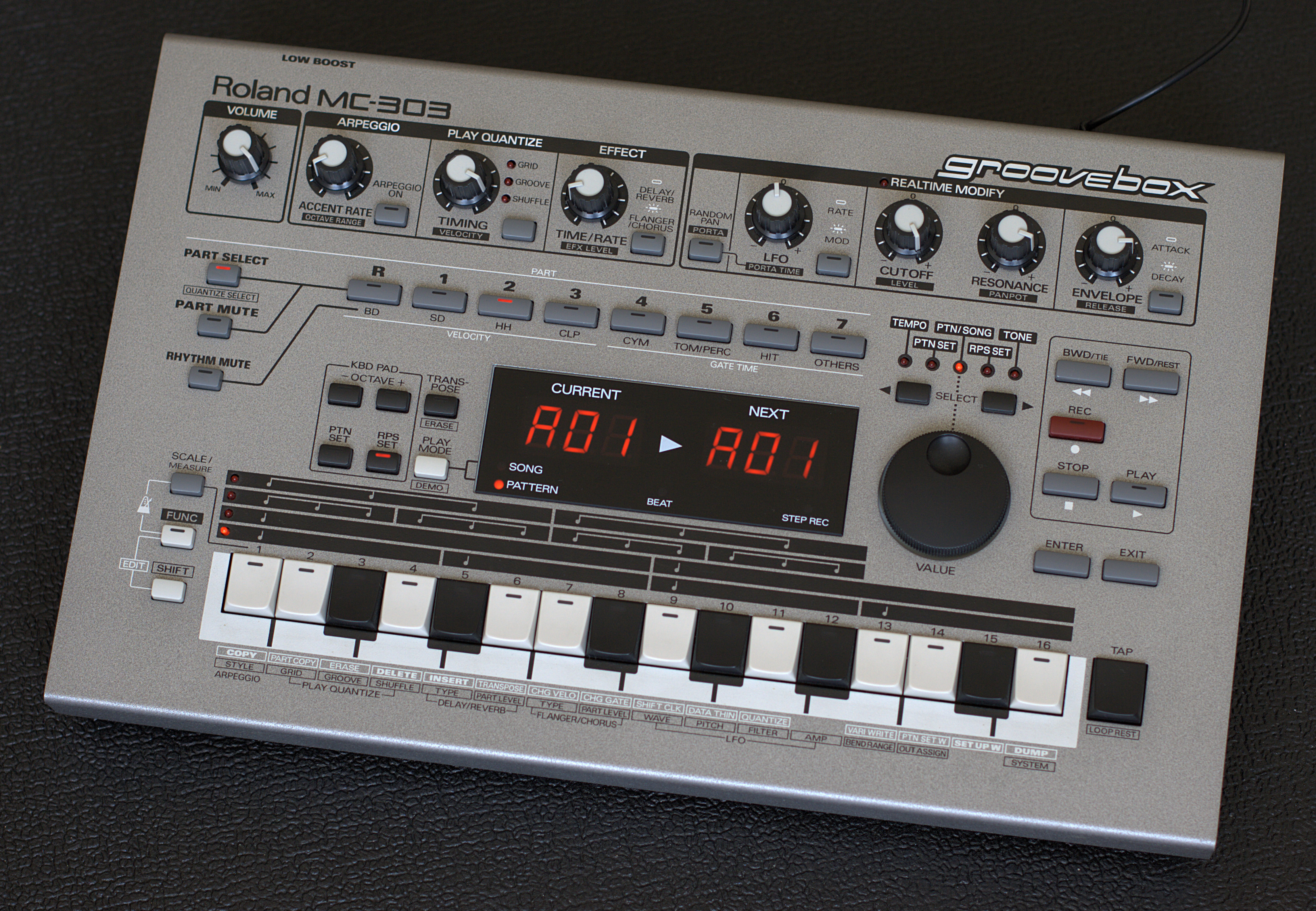 A Roland MC-303 Groovebox Synthesizer. Ein Roland MC-303 Groovebox Synthesizer.